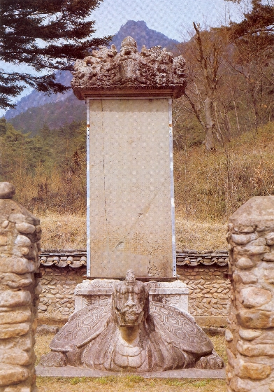 Stele accompanying stupa of buddhist priest Jijeungdaesa of Bongamsa Temple, National Treasure of South Korea No. 315